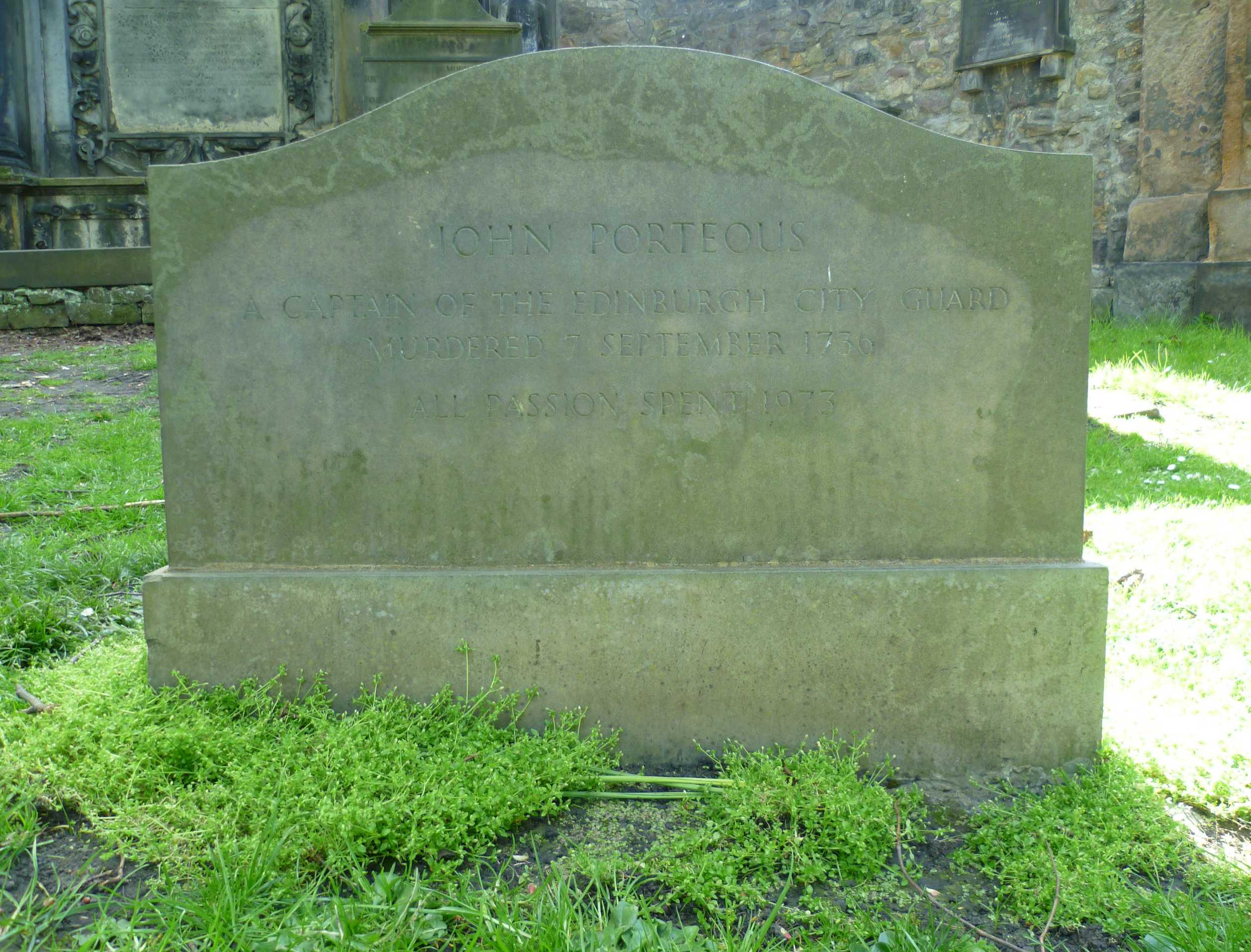 Porteous gravestone, Greyfriars Edinburgh